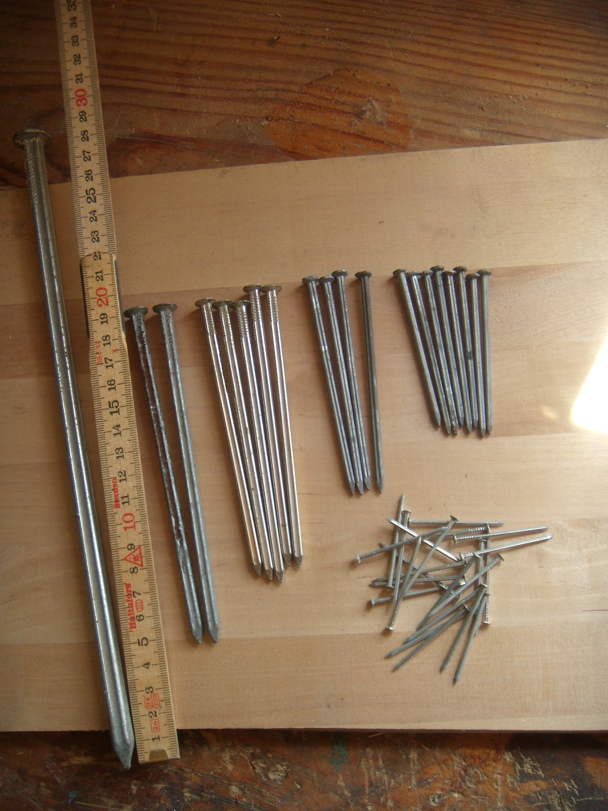 Nail